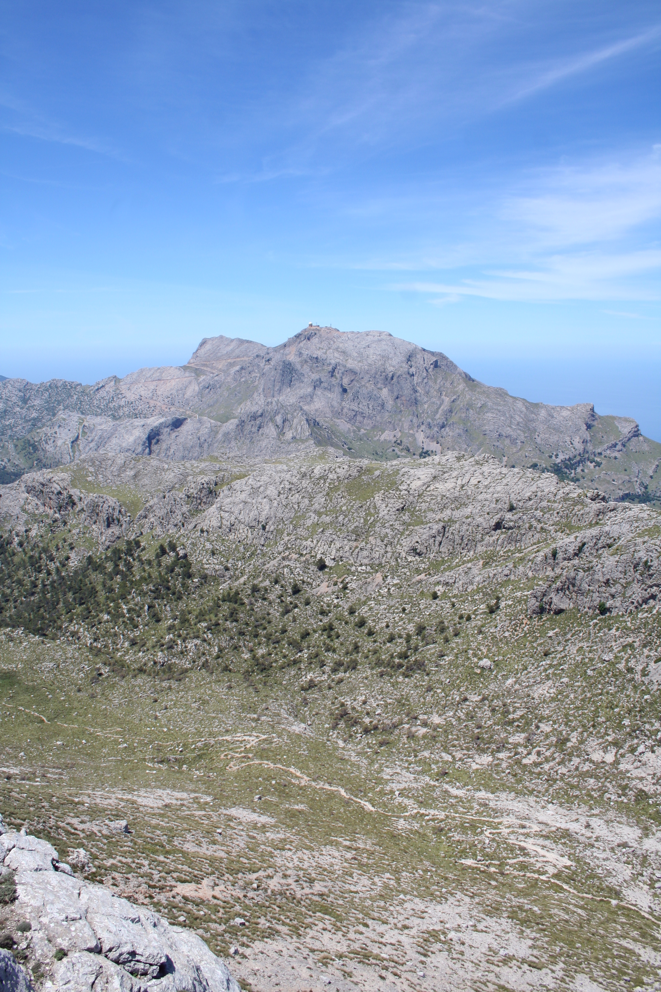 Mallorca - Puig Major from Massanella